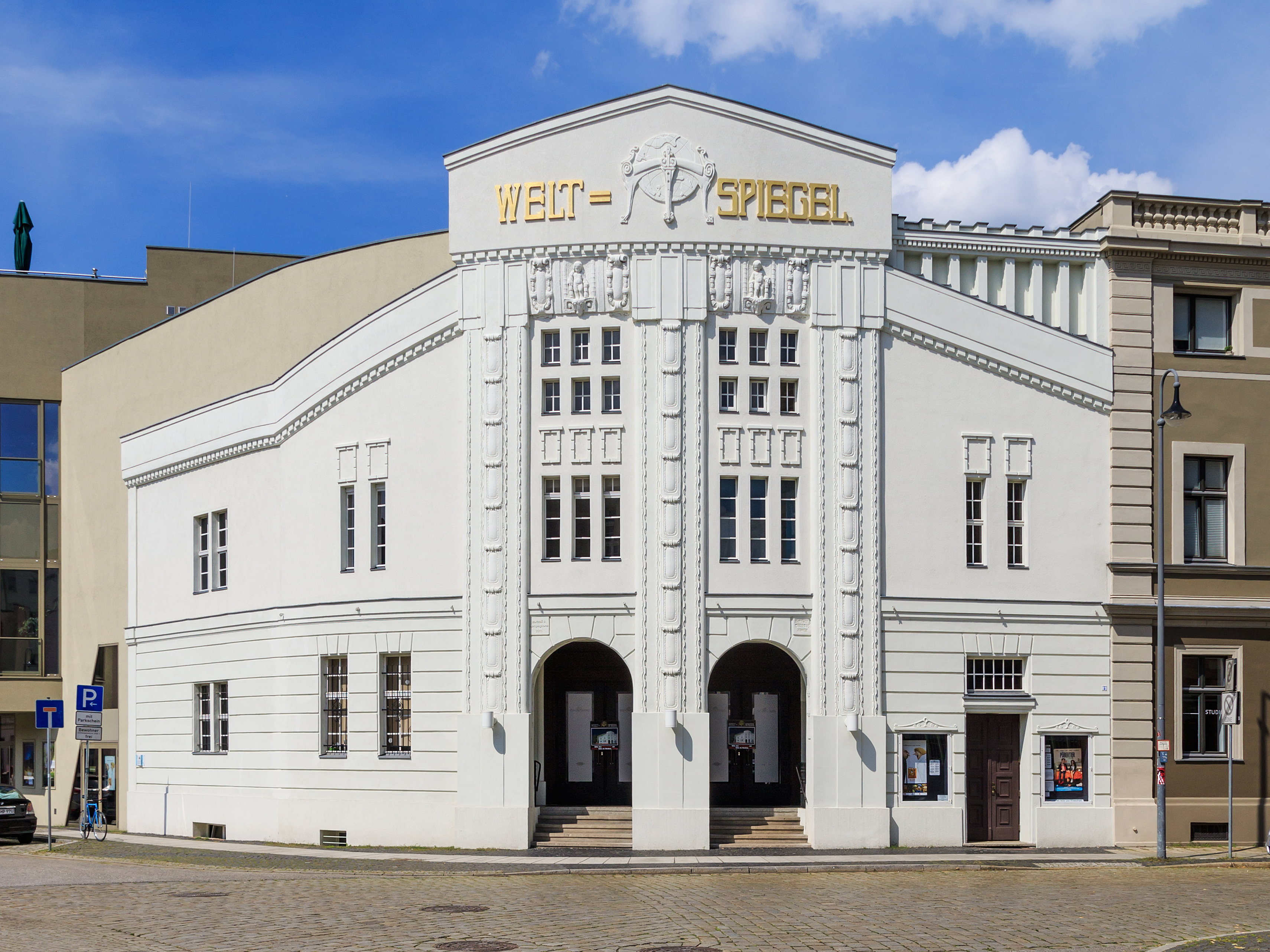 Weltspiegel Cinema in Cottbus (Germany)